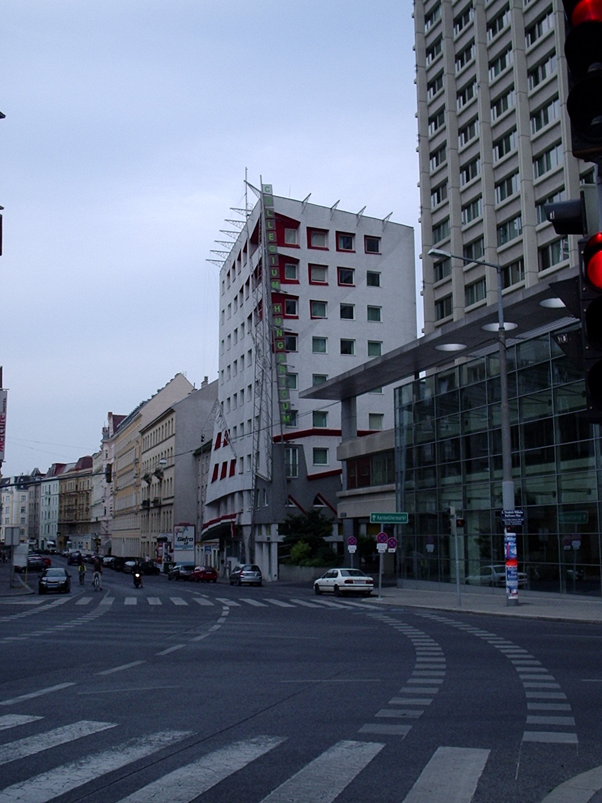 A rather striking college in Vienna, situated near the north bank of the Donnaukanal.